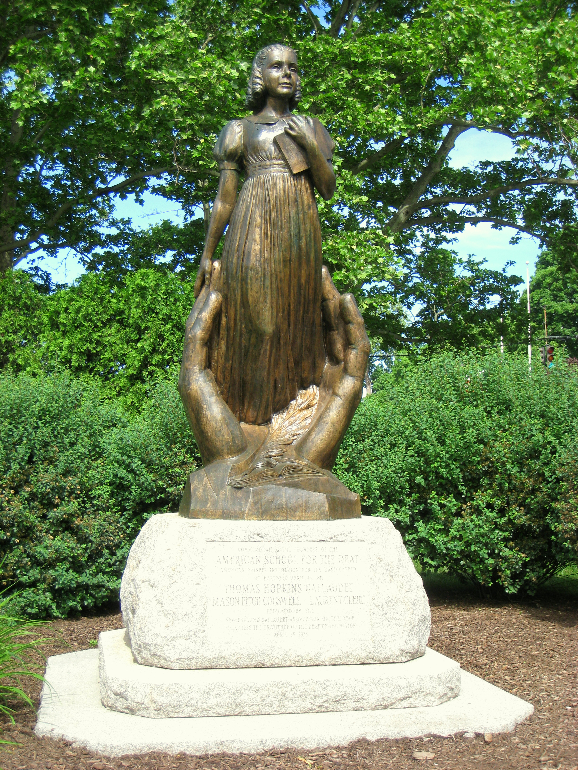 Statue of Alice Cogswell, daughter of a founder of the Connecticut Asylum for the Education and Instruction of Deaf and Dumb Persons (now called the American School for the Deaf), and its first pupil. This statue honors Thomas Hopkins Gaulladet, Mason Fitch Cogswell, and Laurent Clerc, the school's founders. Sculpted by Frances L. Wadsworth.